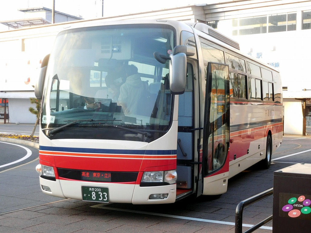 Chikuma bus highwaybus "Ueda-Tachikawa"